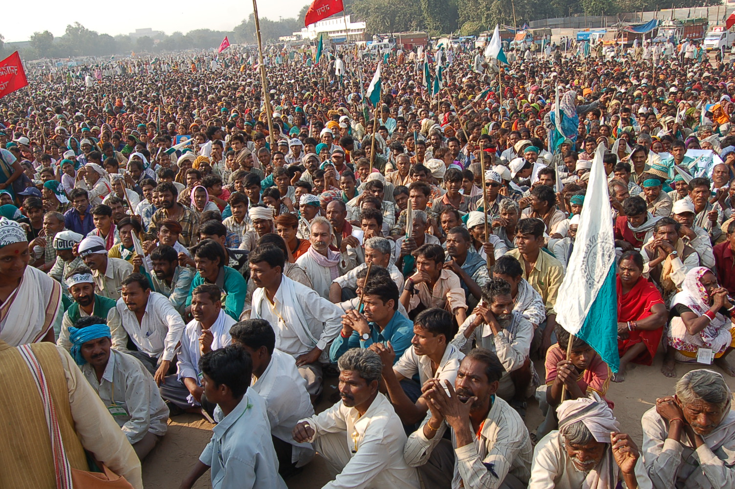 25,000 people on Ramlila Maidan, Janadesh 2007, Delhi, India.